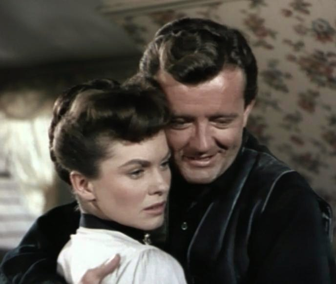 Joanne Dru & Robert Walker in Vengeance Valley